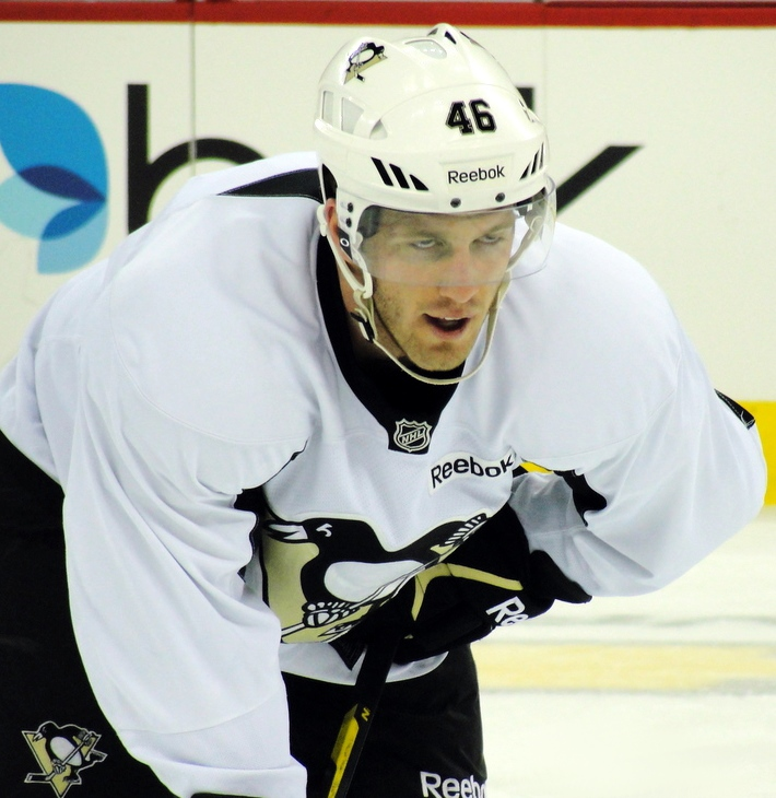 Joe Vitale of the Pittsburgh Penguins during the morning skate at RBC Center in Raleigh, NC before the December 3, 2011 game vs the Hurricanes.